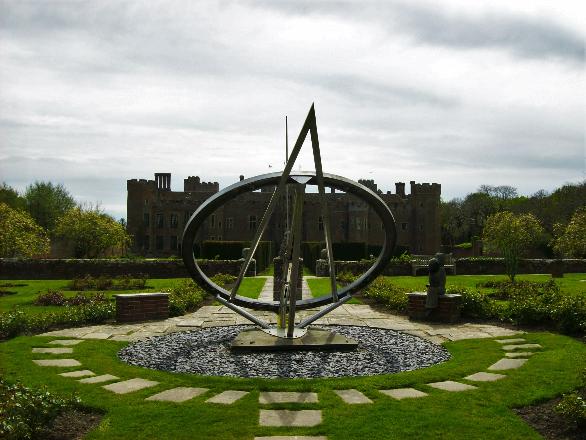 Herstmonceux Castle, giant sundial